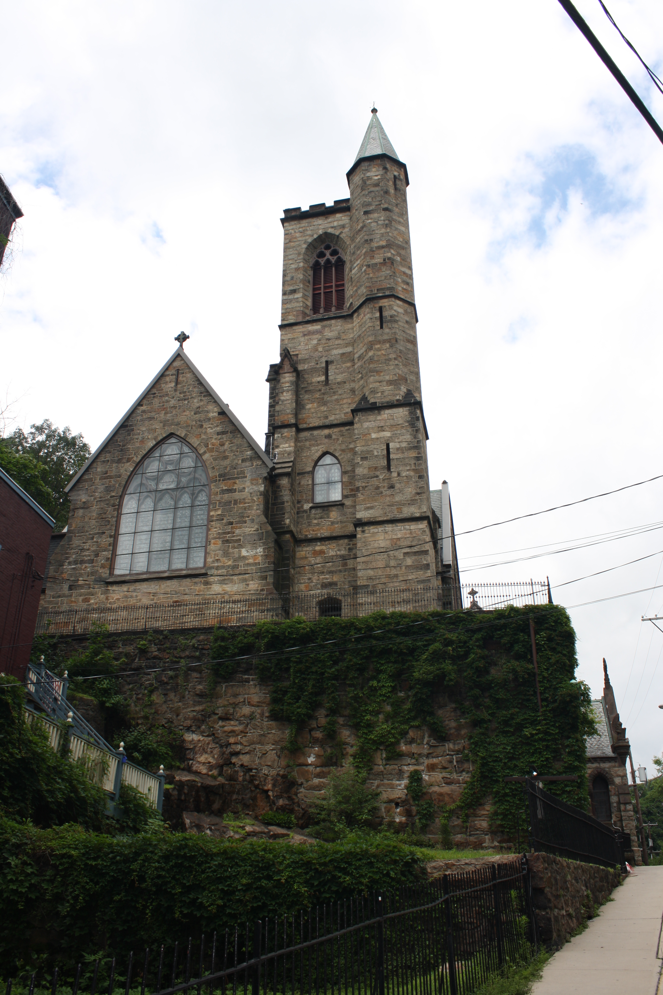 St. Mark's Episcopal Church is a historic Episcopal church located at Jim Thorpe, Carbon County, Pennsylvania.